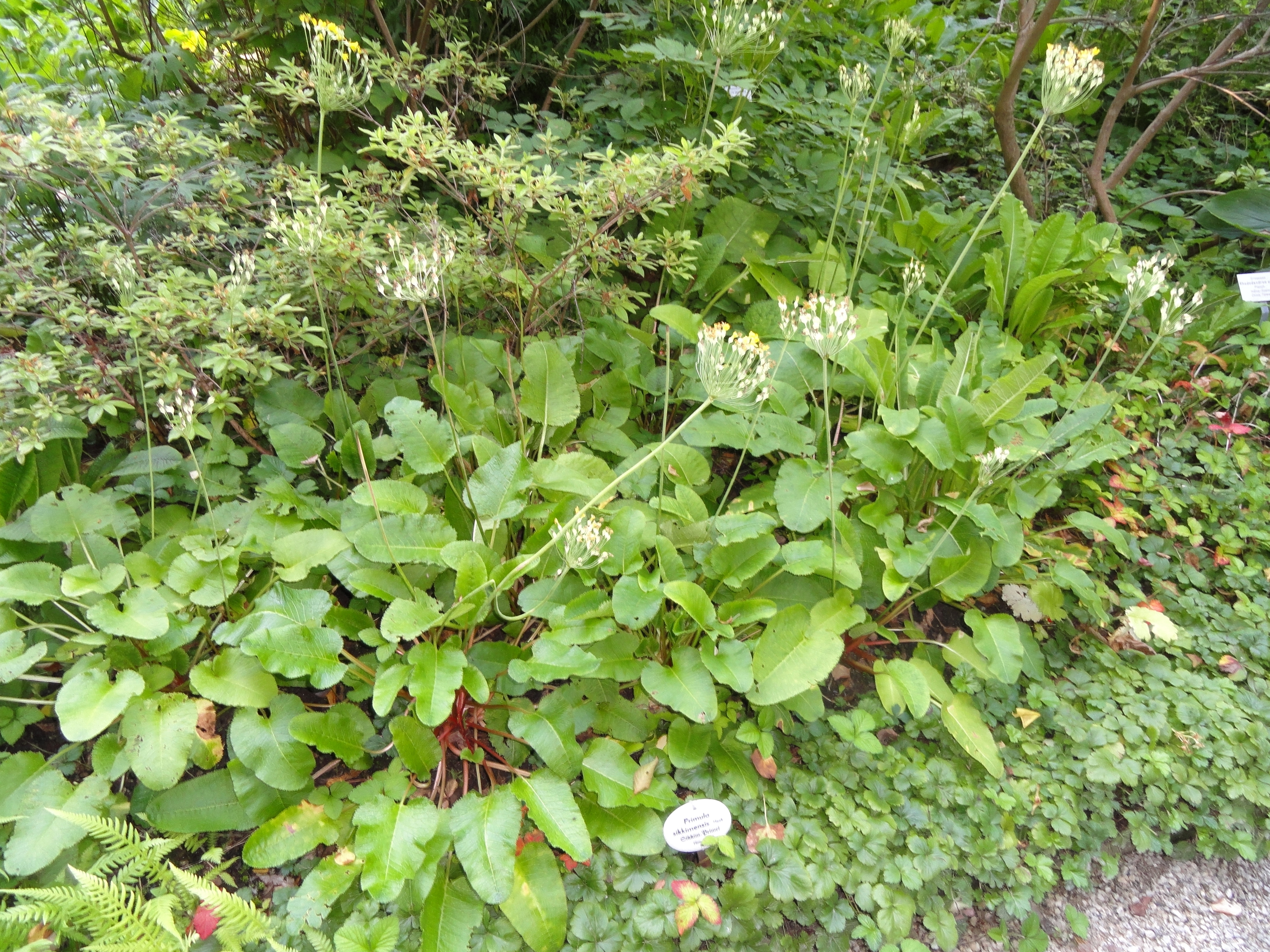 Botanical specimen in the Botanischer Garten, Frankfurt am Main, Germany.